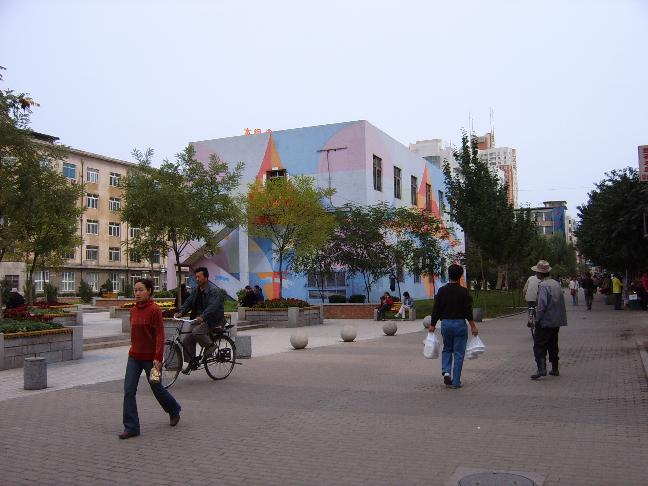 Photo d'une rue piétonne de la ville de Benxi en Chine, prise par l'utilisateur sarcozona sur Flickr Page de l'image originale